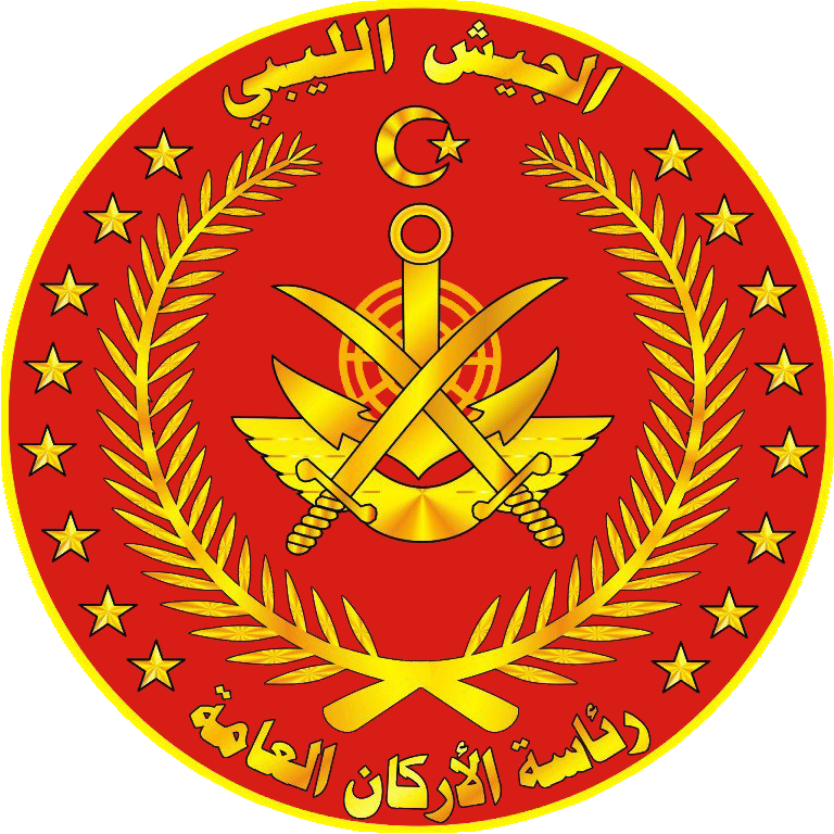 Libyan National Army emblem. Edited from JPG version with artifacts removed where possible. Original PNG source would be ideal if one can be found.